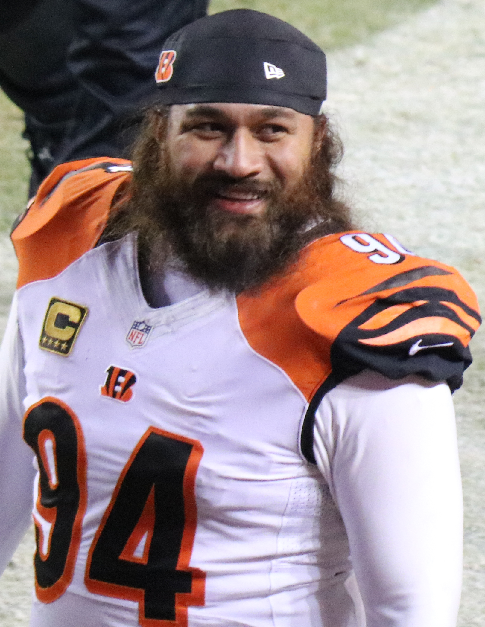 Domata Peko, a player on the National Football League.